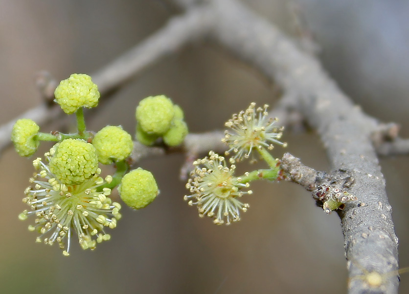 Governor's Plum, Tambat, batoka plum, Madagascar plum, Mauritius plum, Rhodesia plum or athrun Flacourtia indica in Hyderabad, India.